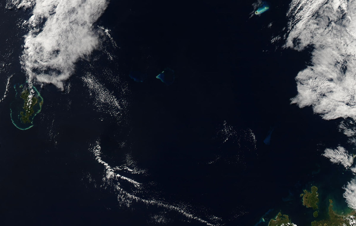 Terra MODIS satellite image of the Indian Ocean north of Madagascar, showing Mayotte (left), Banc du Geyser (center) and Glorioso Islands (right top)